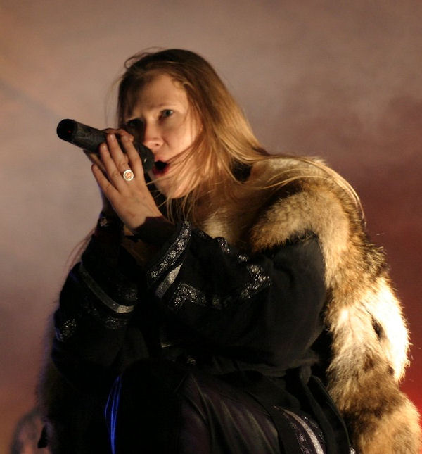 Maria („Mascha“) ‚Scream‘ Archipowa, vocalist of the russian Pagan-Metal-Band Arkona, performing live at the Black Troll Festival (Germany) in 2010.